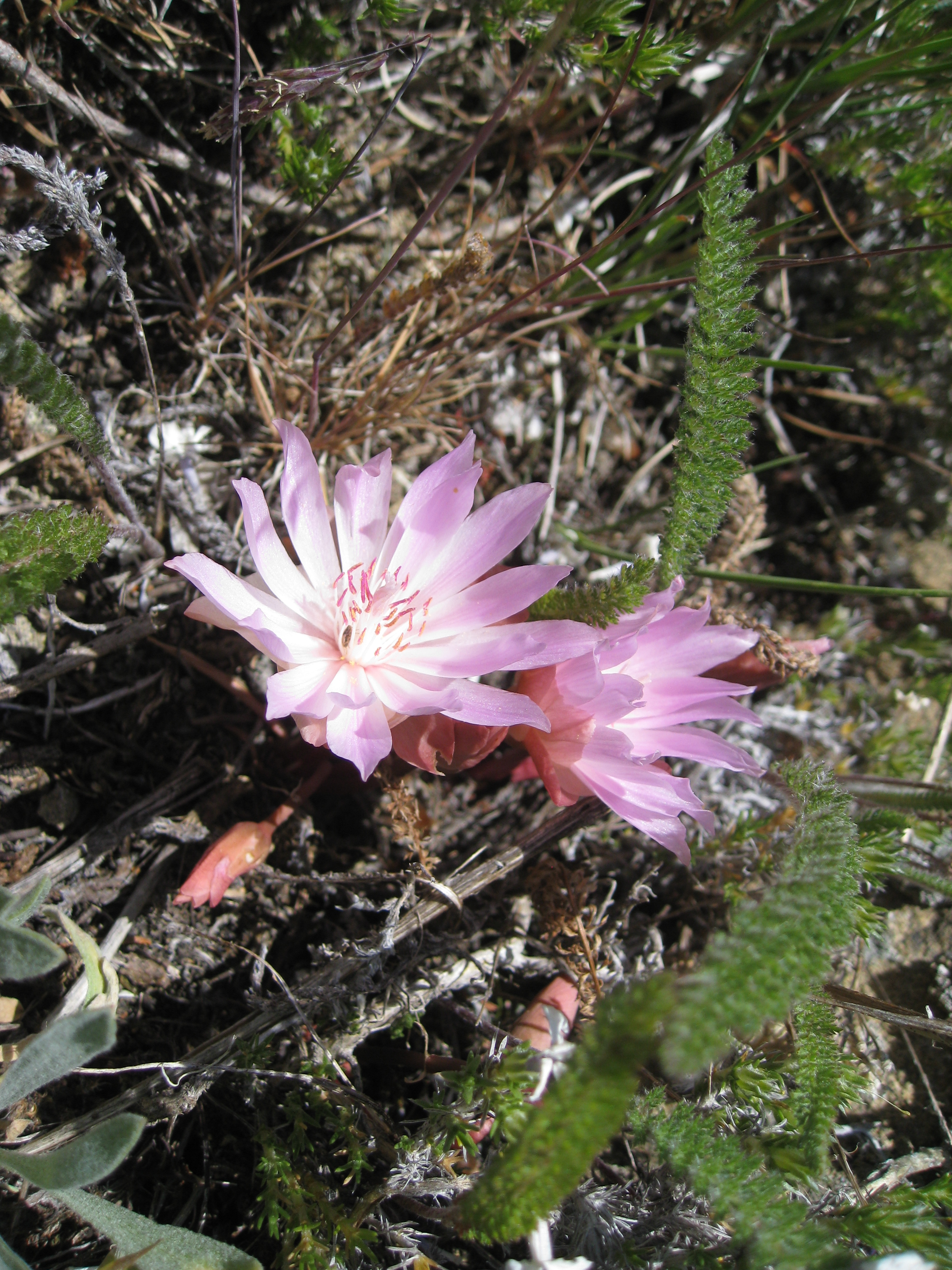 Lewisia rediviva (Bitterroot) on Tronsen Ridge Portulacaceae bitter-root Lewisia rediviva Pursh on USDA Plants Profile Lewisia rediviva Pursh on wikipedia Lewisia rediviva Pursh at Burke Museum, University of Washington Tronsen Ridge Wenatchee National Forest Chelan County, Washington, USA Elevation about 1800 m (5900) feet Northwestern Chapter of the. North American Rock Garden Society field trip to Tronsen Ridge 094